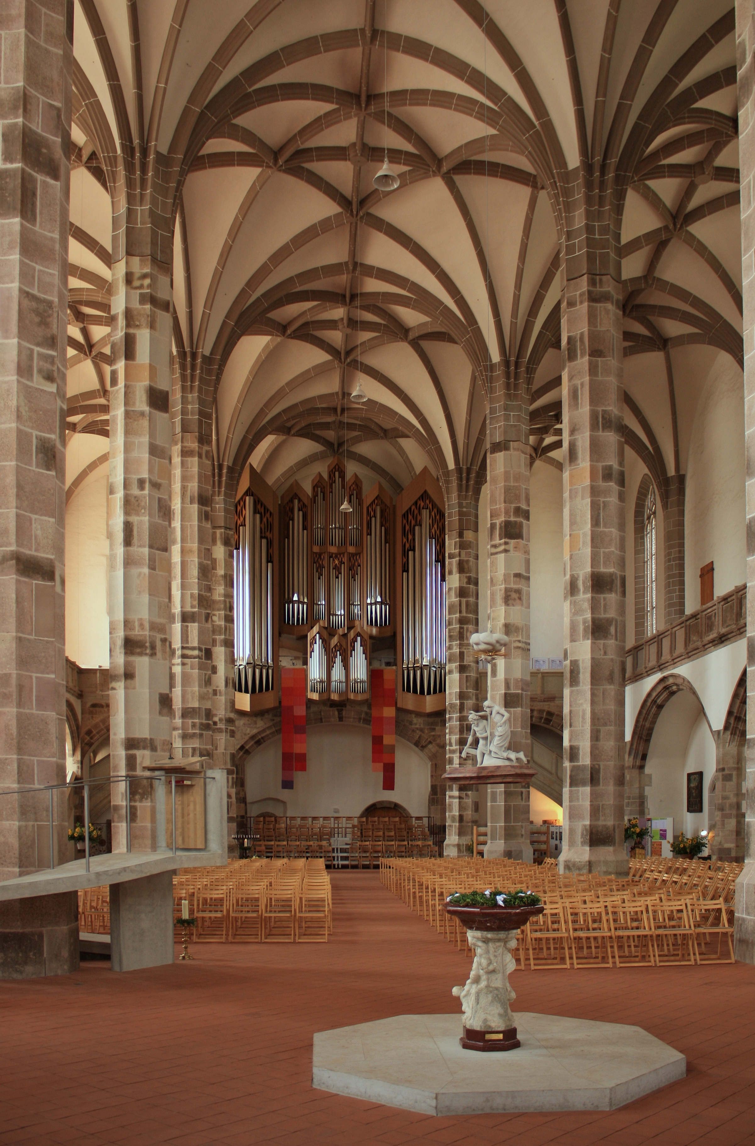 Interior of St. Wolfgang Church, Schneeberg.